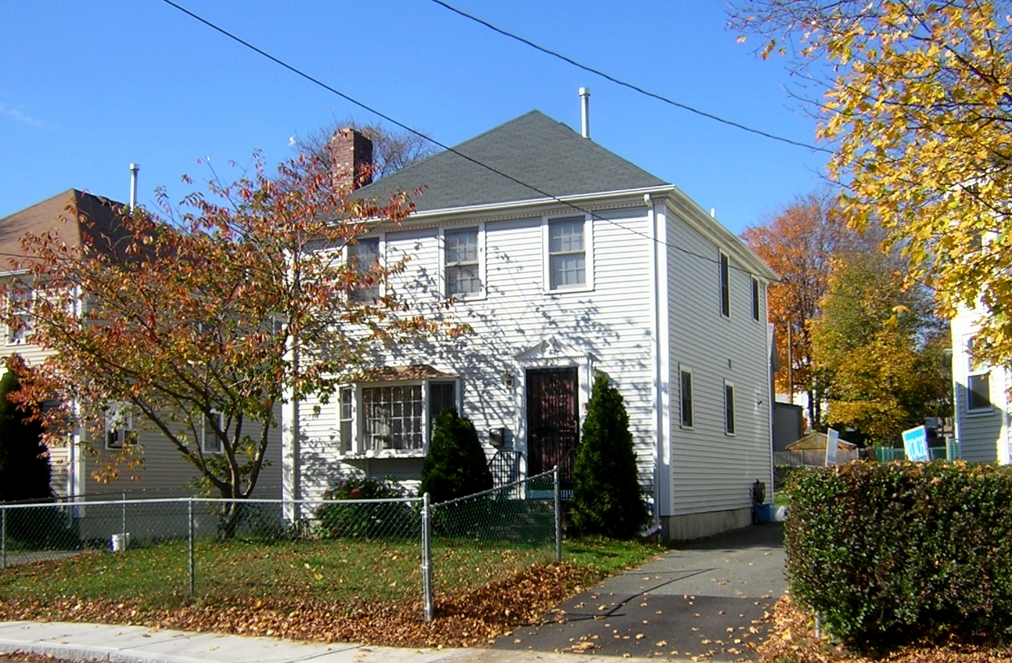 The site of the Solomon Nightengale (or Nightingale) House, Quincy MA. It appears that the original one story Cape as been taken down and this and the identical house to the left have been erected on the lot.